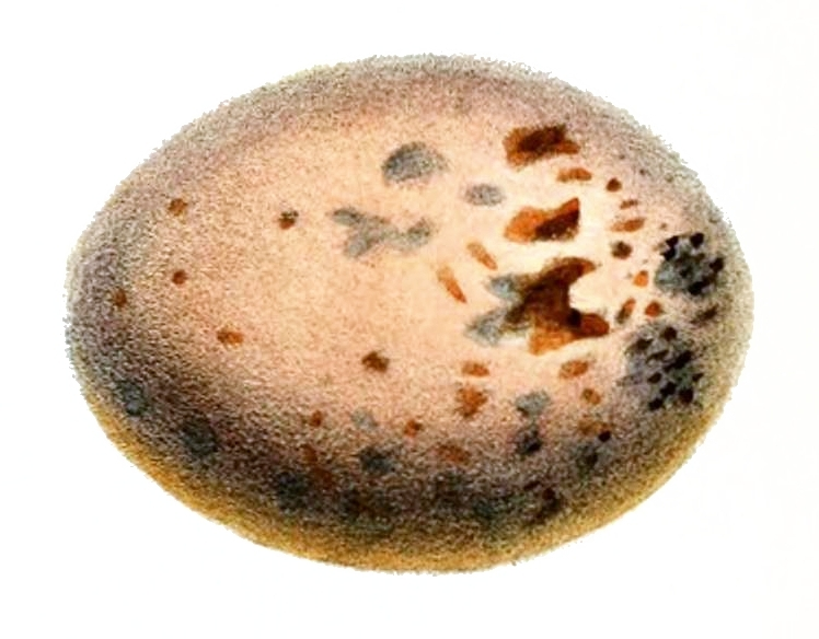 Sunbitten egg